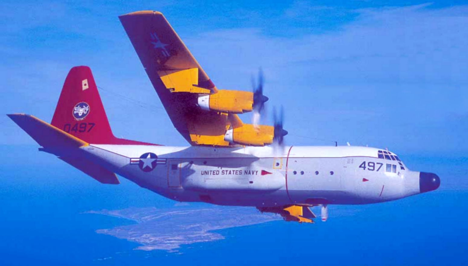 A U.S. Navy Lockheed DC-130A Hercules (BuNo 570497) assigned to Air Test and Evaluation Squadron VX-30 Bloodhounds at Naval Air Station Point Mugu, California (USA), in 2004. This aircraft had been delieverd to the U.S. Air Force as an C-130A-45-LM in 1957 and was retired on 8 January 1979. It was transferred to the U.S. Navy on 13 March 1979 and converted to a DC-130A drone control aircraft. Curiously it kept its USAF serial number and was not assigned a regular USN BuNo. It became the oldest C-130 in US military service and was even deployed to Iraq in 2003. It was finally retired to the AMARC as 2G0055 on 27 June 2007.